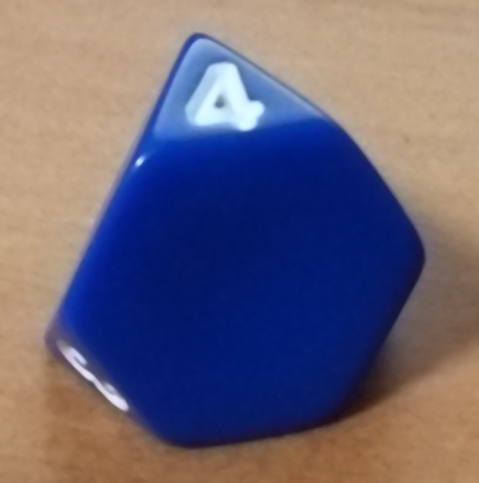 truncated tetrahedron dice